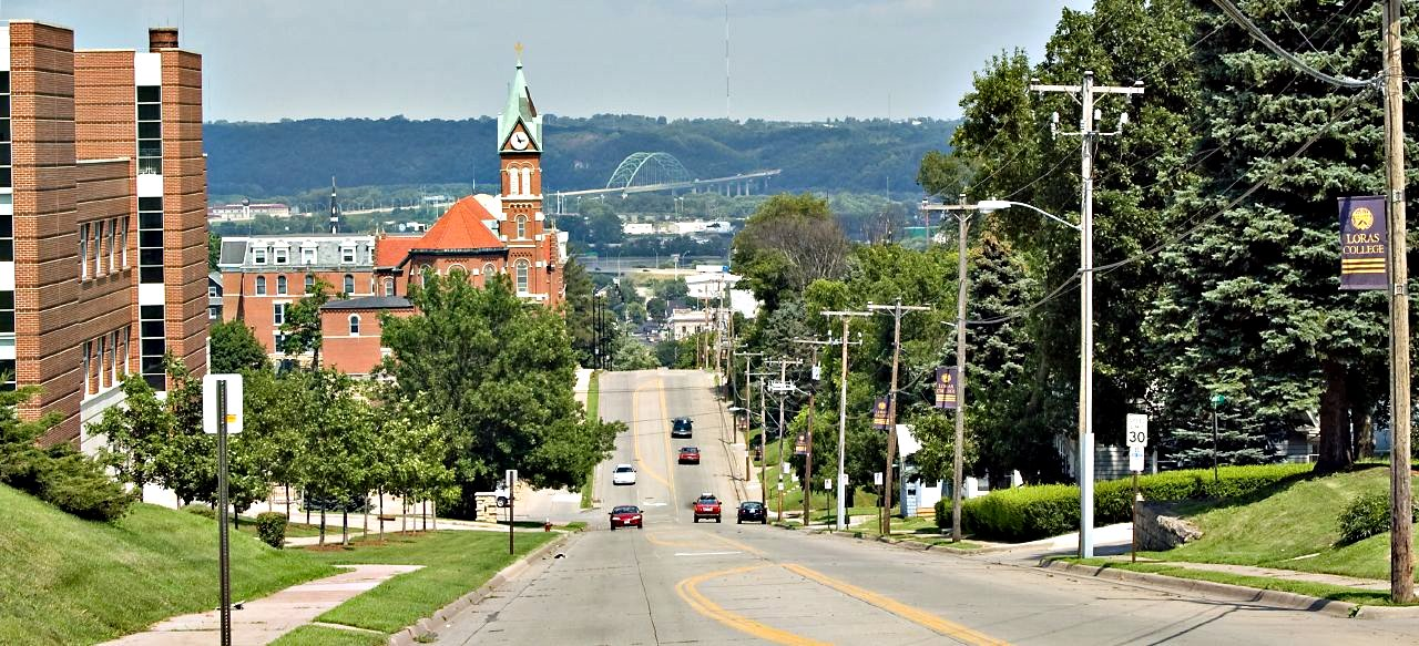 View from Loras College in Dubuque, Iowa, USA